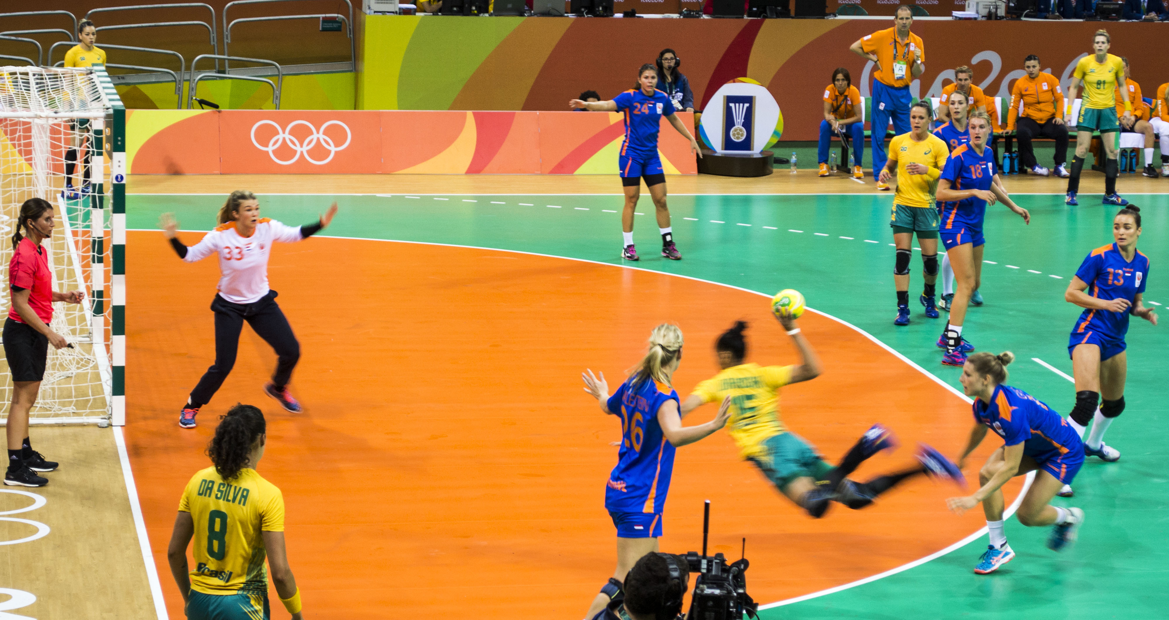 Women's handball, the dispute between Brazil and the Netherlands in the quarterfinals, where the Netherlands beat Brazil by 32-23 and ended the dream of the medal in the Rio de Janeiro Games.